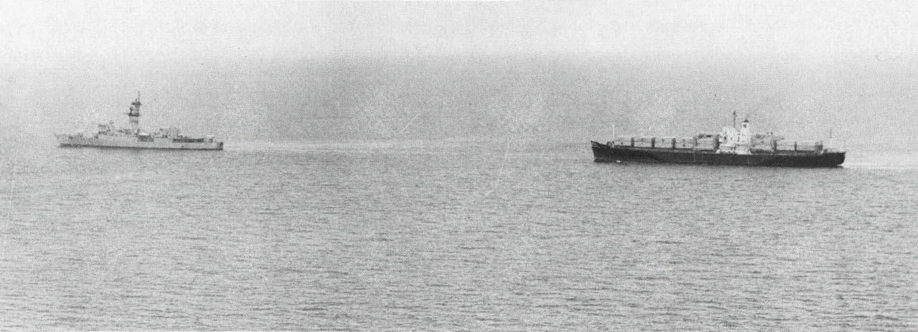 The U.S. Navy ocean escort USS Harold E. Holt (DE-1074) tows the SS Mayaguez away from Koh Tang island, Cambodia, on 15 May 1975, during the Mayaguez incident.